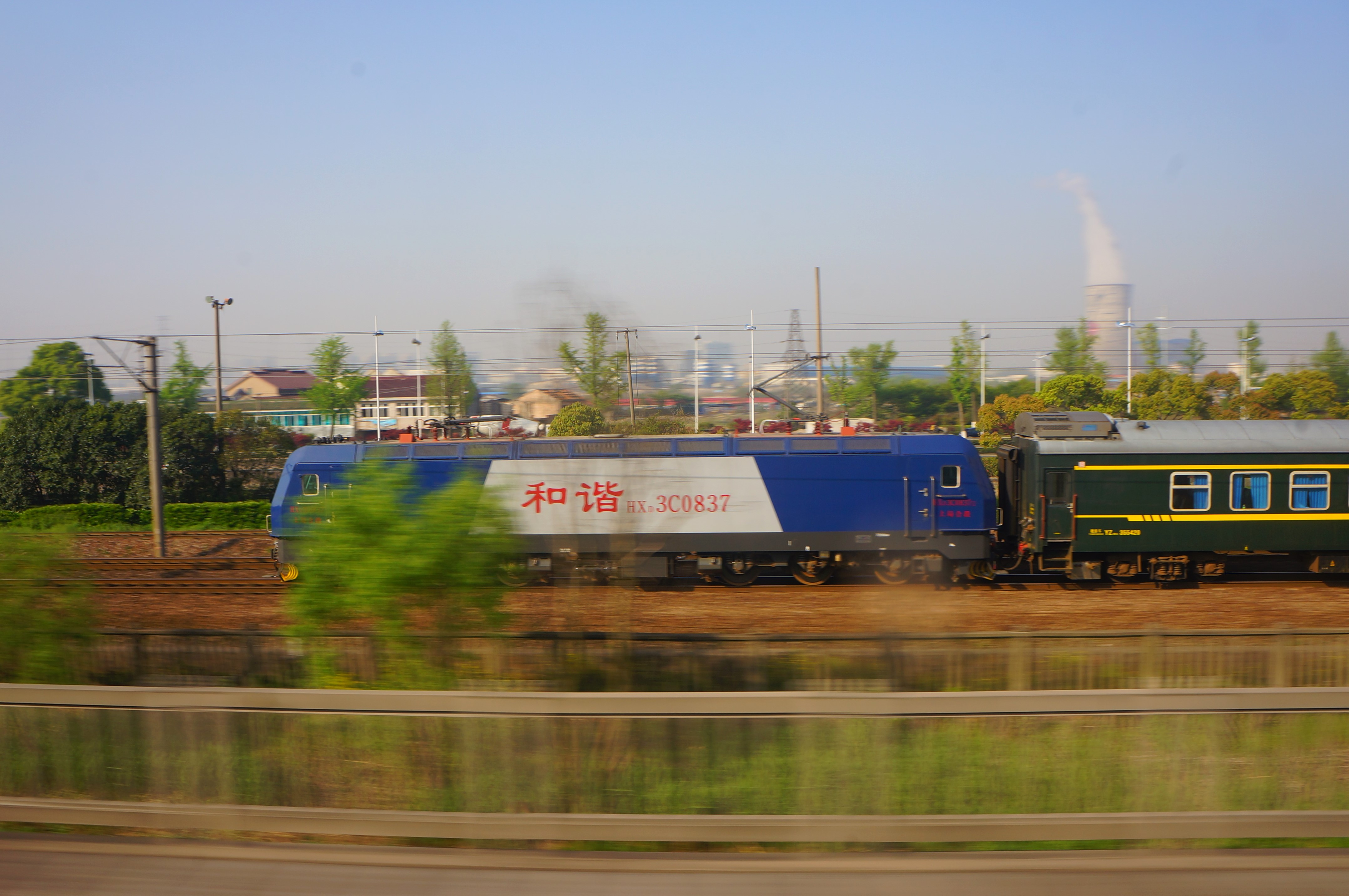 201704 HXD3C-0837 hauls K463 at Suzhouxi Station